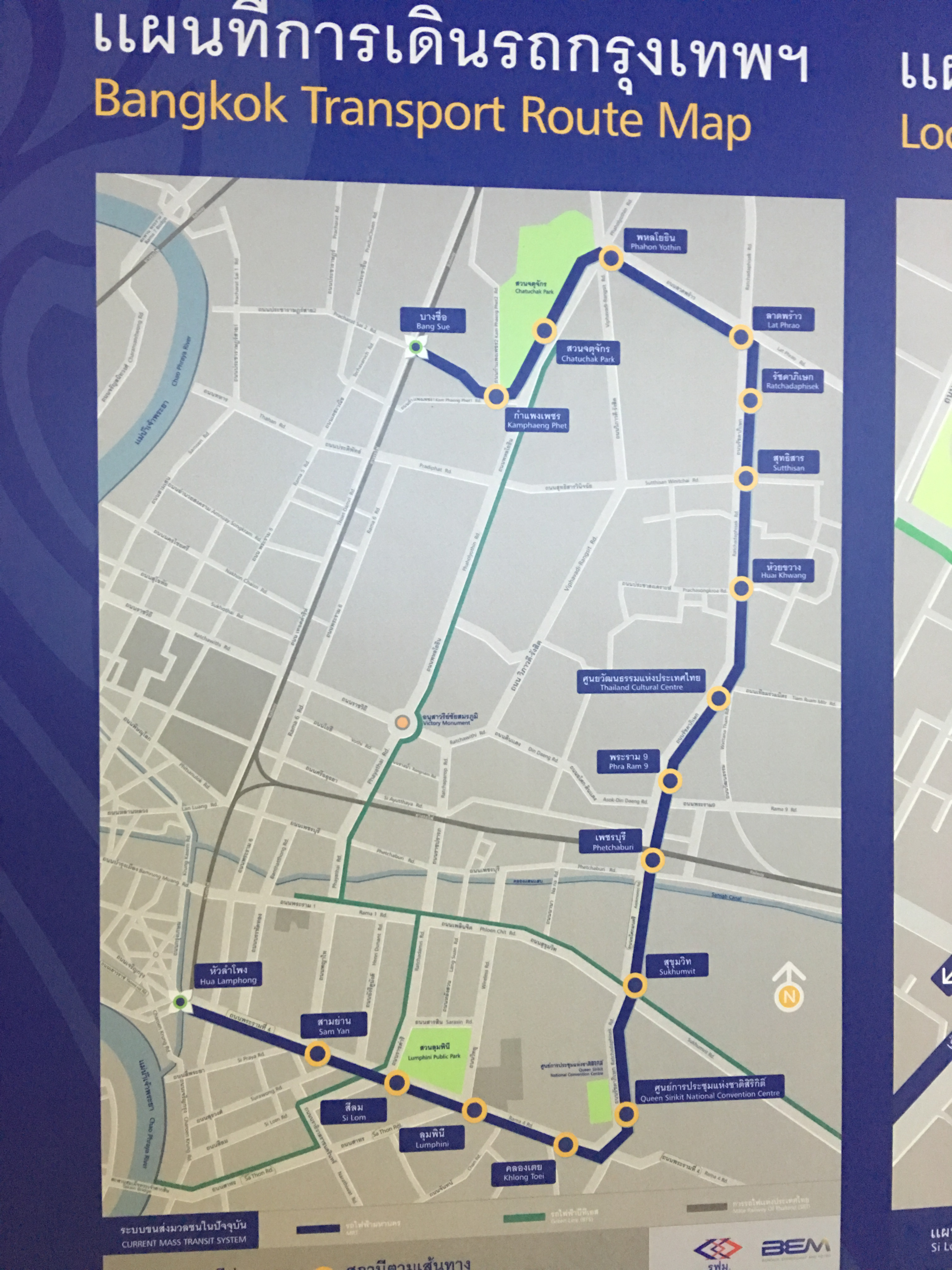 Bangkok Transport Route Map at Silom MRT Station